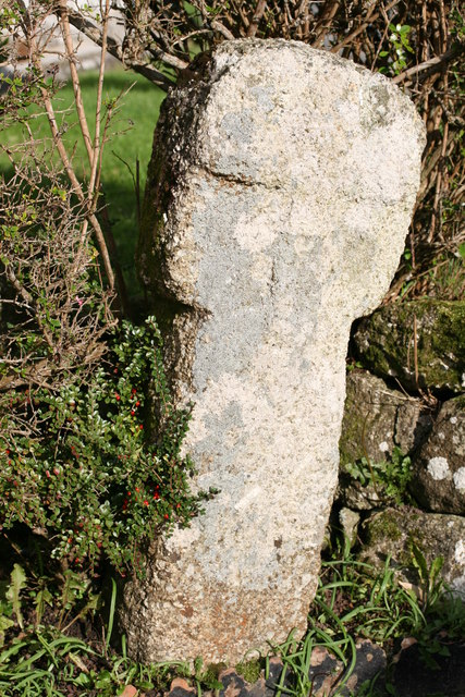 Celtic cross, Towednack church This celtic cross is on the left side of the church porch.